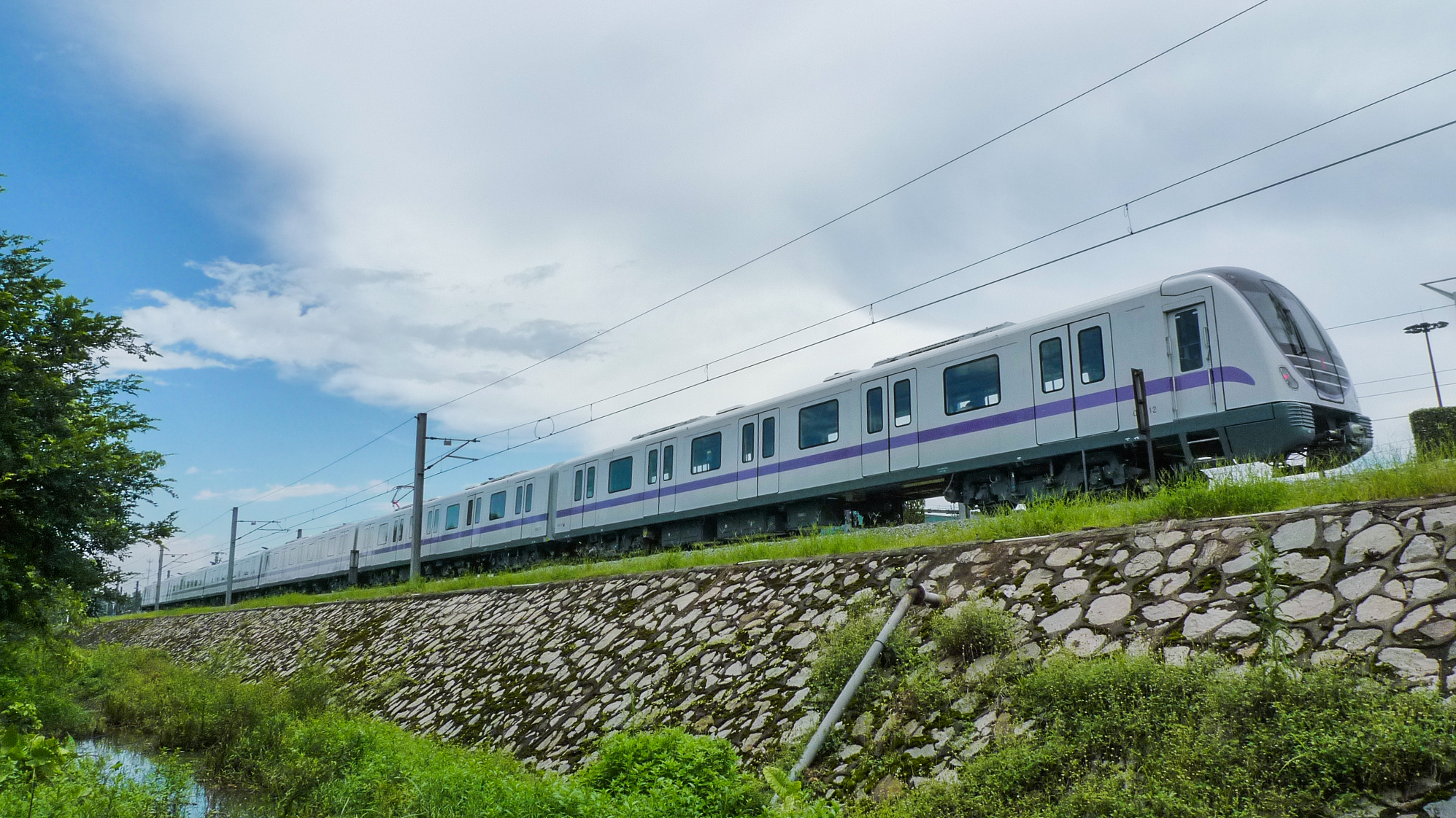 "A5" train in Chisha Depot